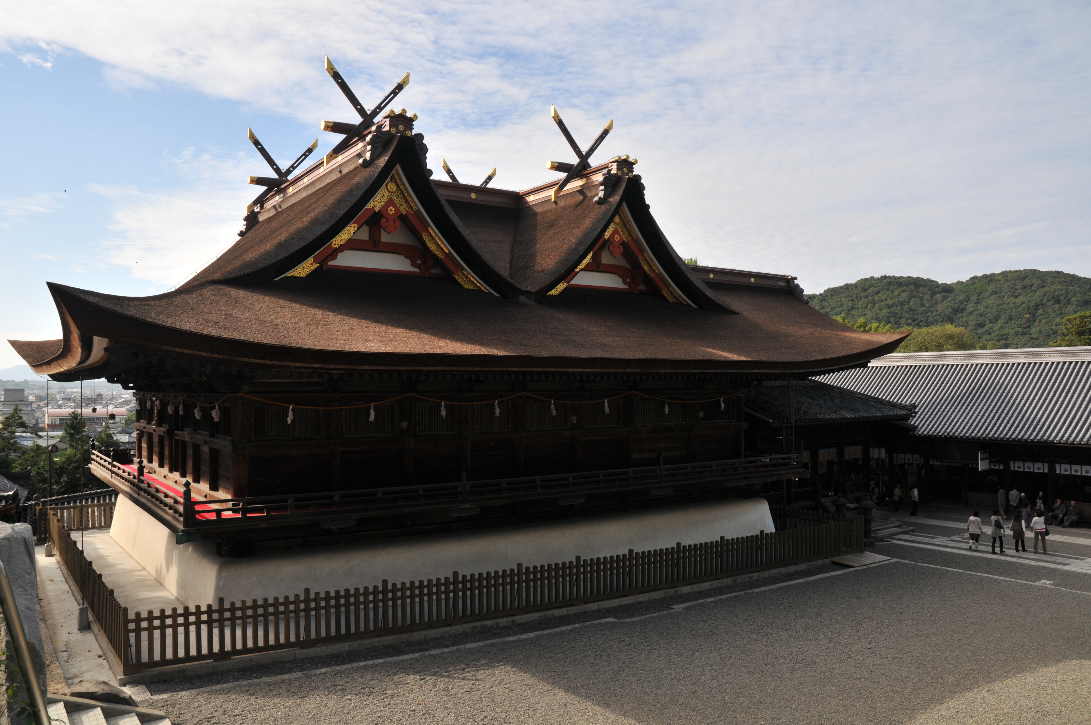 Main Shrine of Kibitsu jinja(Japan's national treasure)